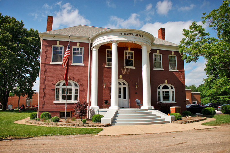 The Vigo County Home for Dependent Children, also known as the Glenn Home, in Terre Haute, Indiana. This particular building on the grounds is currently the home of the Pi Kappa Alpha fraternity chapter at Rose Hulman Institute of Technology.